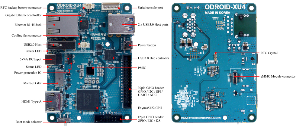 Board Layout of Odroid-XU4 Single-board computer, 2015